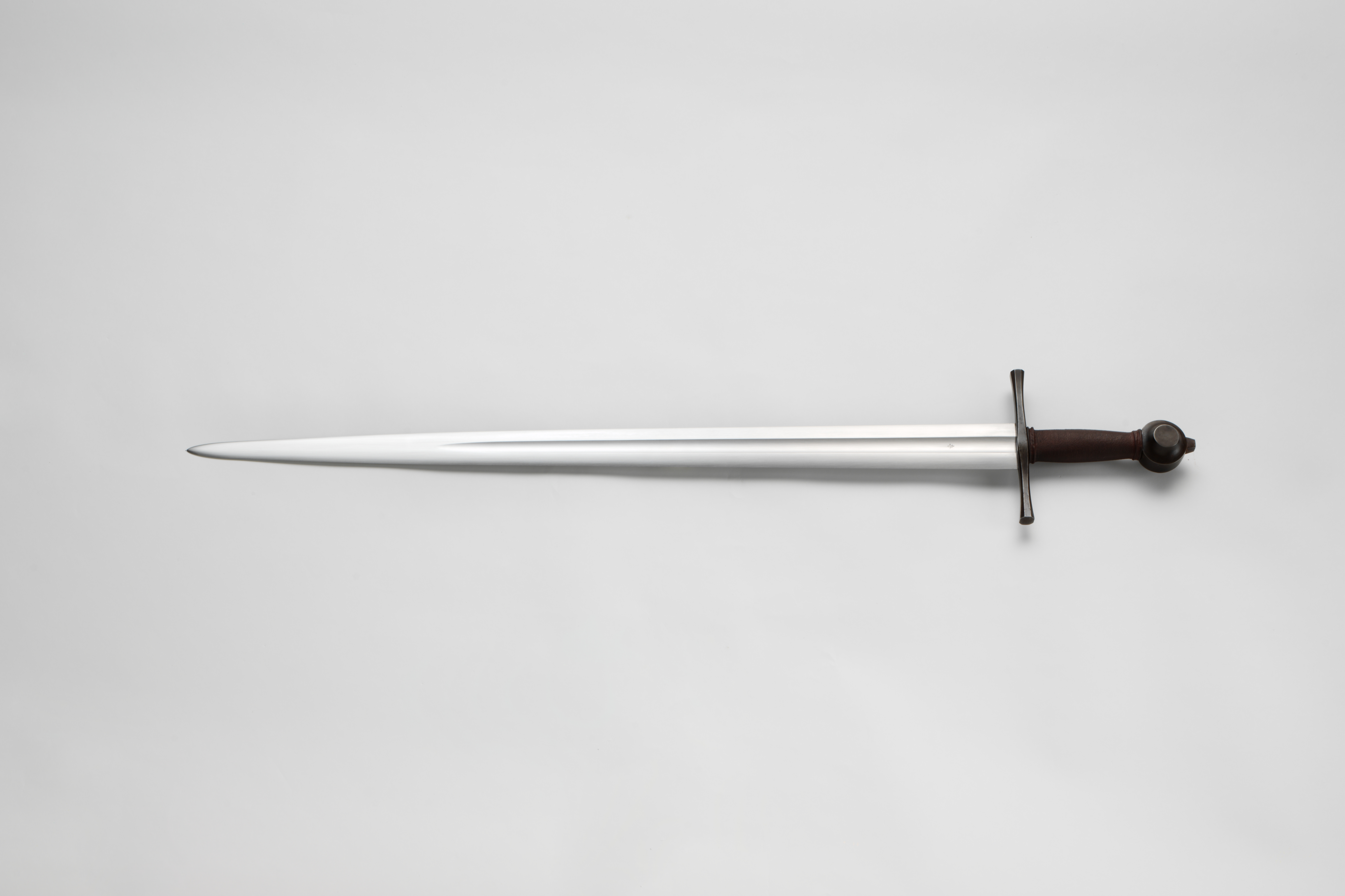 The Knight Limited Edition Medieval Sword